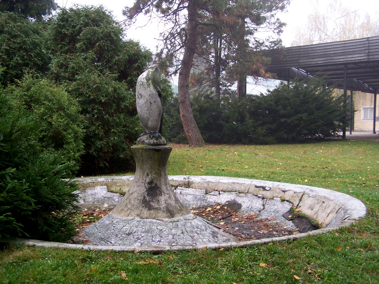 Fountain by Rudolf Chorý in "Smetanovy sady" Park in Olomouc, Czech Republic